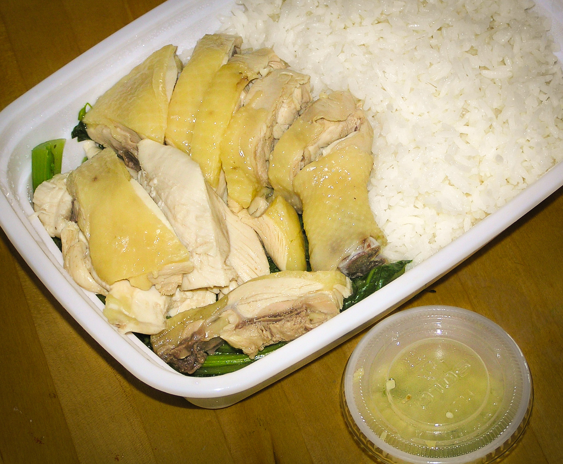 White cut chicken White sliced chicken siu mei Cantonese cuisine mashed ginger mash ginger